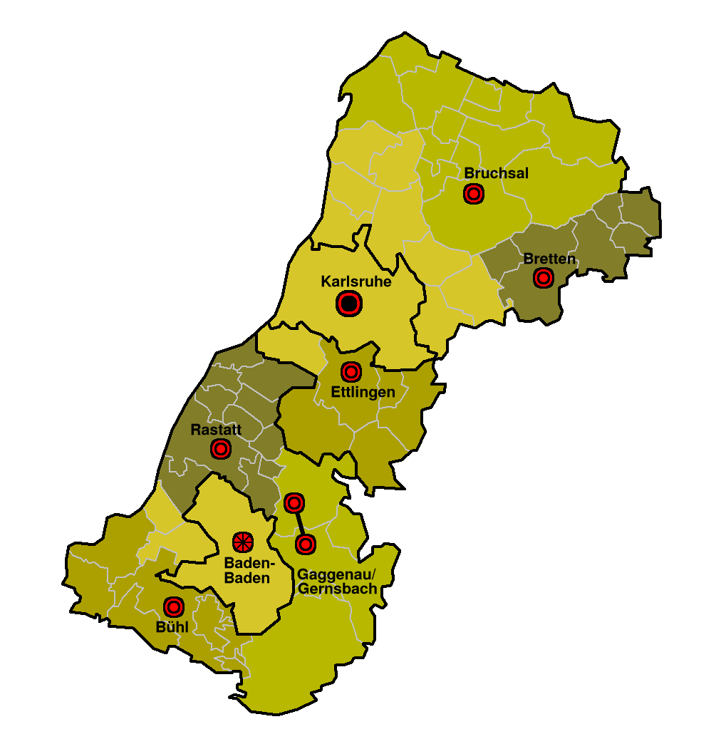 Maps of planning regions (Mittelbereiche) in the region Mittlerer Oberrhein, Baden-Württemberg, Germany